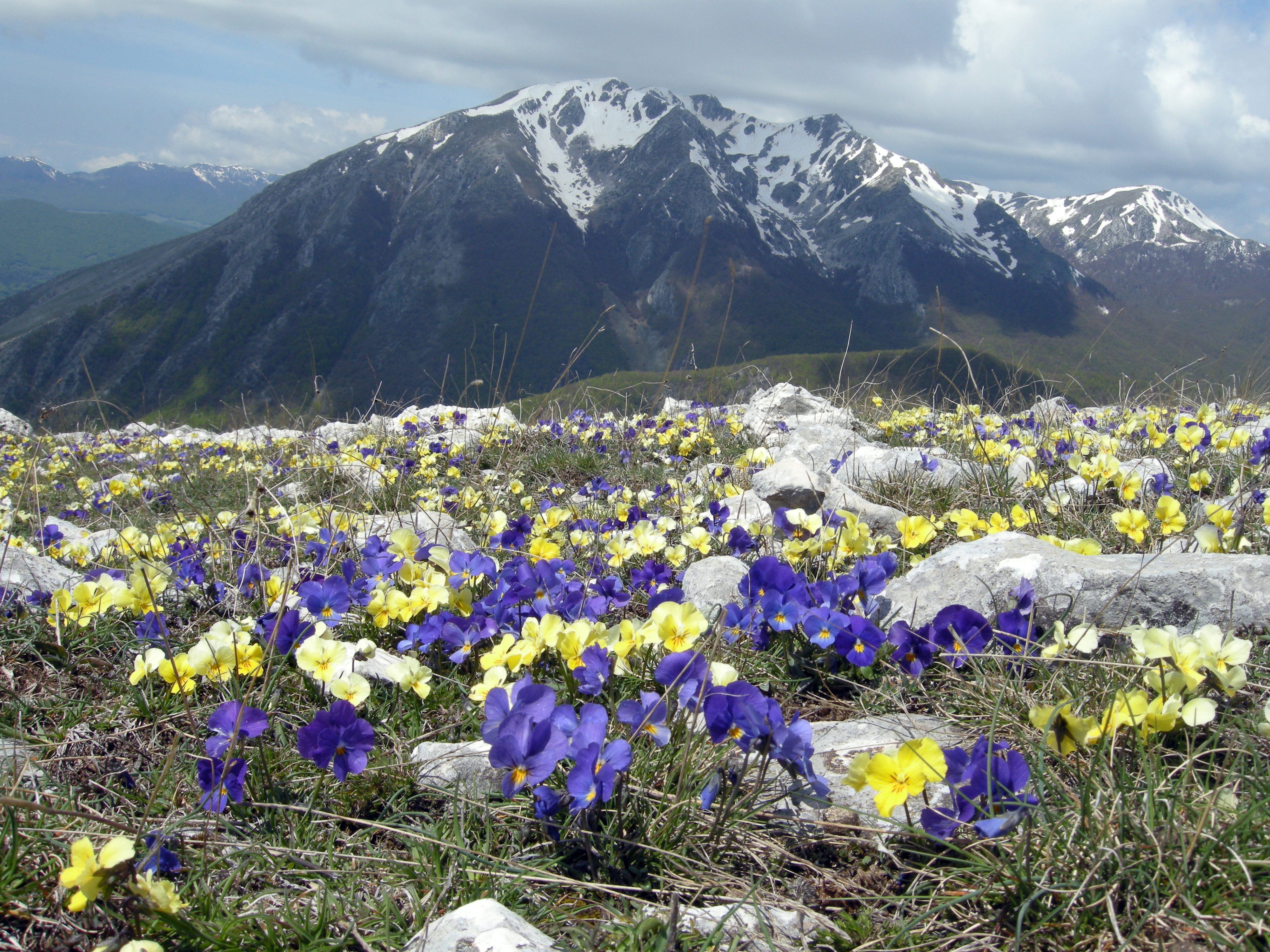 Marsicano mountain This is a photo of a monument which is part of cultural heritage of Italy.